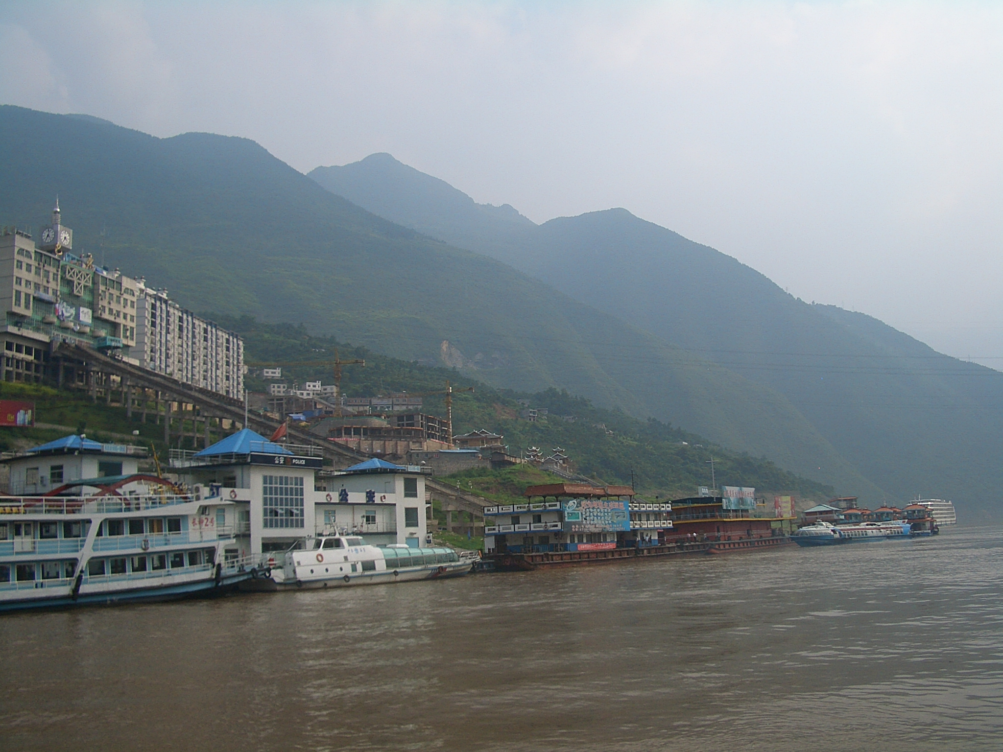 In the Badong port area on the Yangtze River, as seen from a boat. One can see part of the Badong Bridge in some photos.